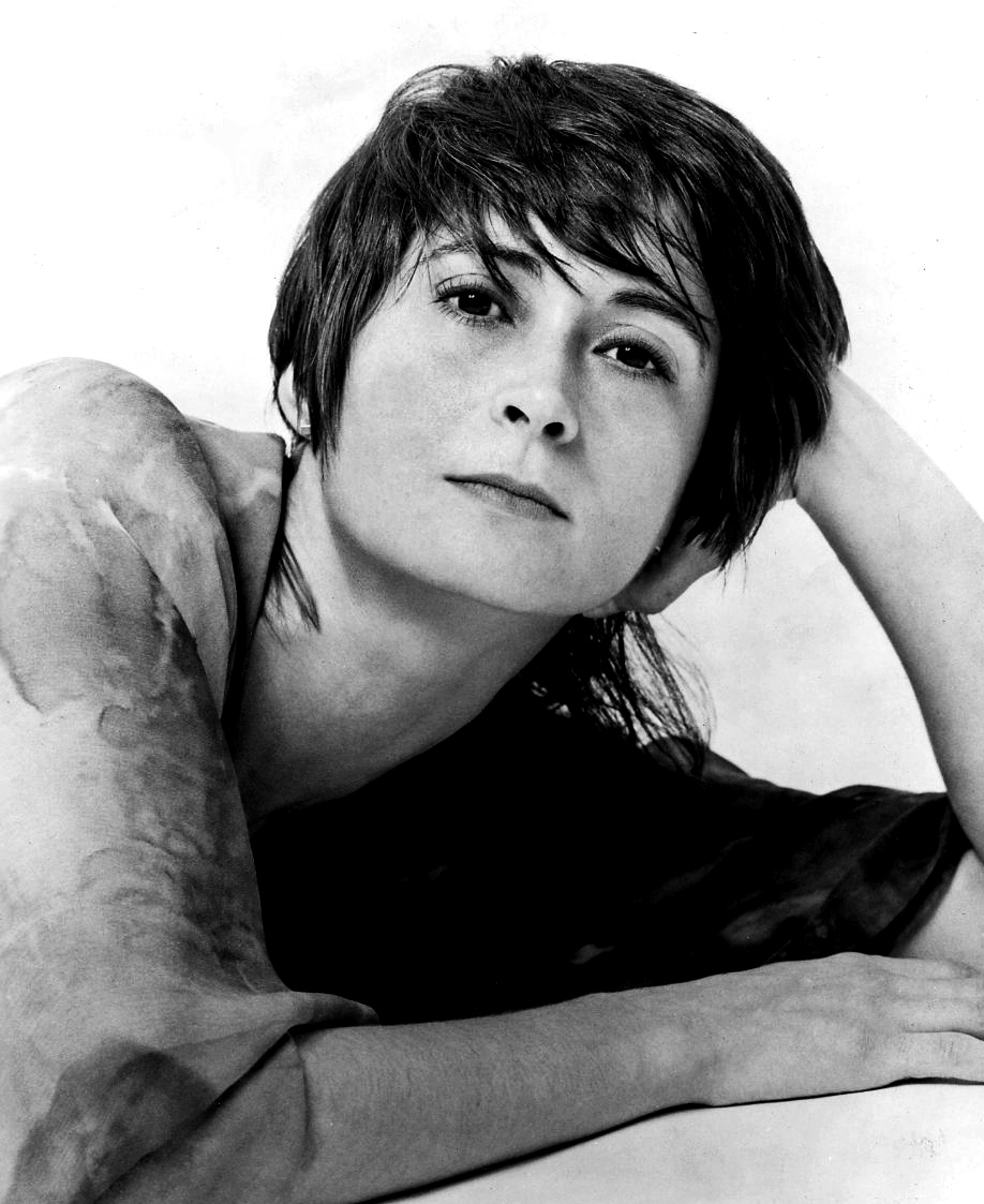 Publicity photo of Twyla Tharp